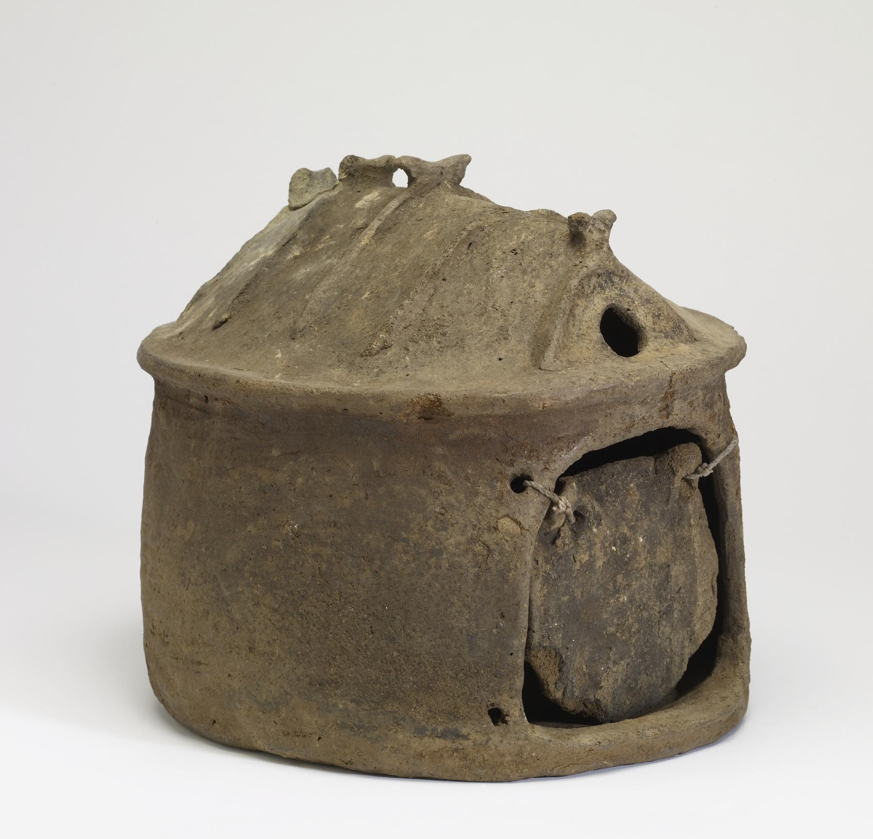 Villanovan culture arose during the 9th and 8th centuries BC in central Italy and is the oldest phase of the Etruscan civilization. Villanovan artists developed a geometric style distinguished by angular shapes, which lived on in the art of the Etruscans. This urn was probably used as a container for the ashes from a cremation. Hut urns are especially significant artifacts because they depict Villanovan domestic architecture, otherwise lost to us.